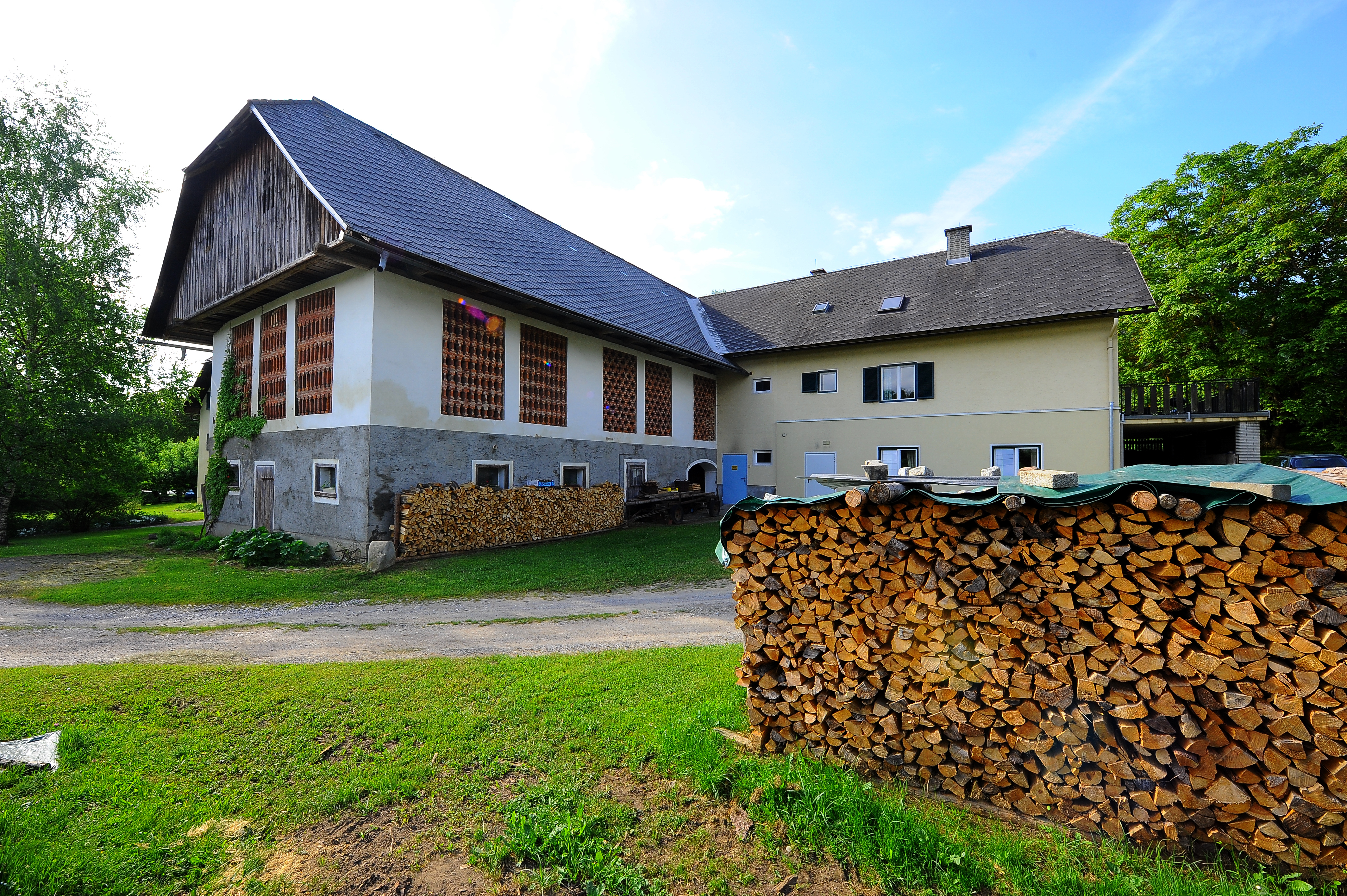 Hoeflein #3, farmstead "vulgo ORDREJ" in the municipality Keutschach am See, district Klagenfurt Land, Carinthia, Austria